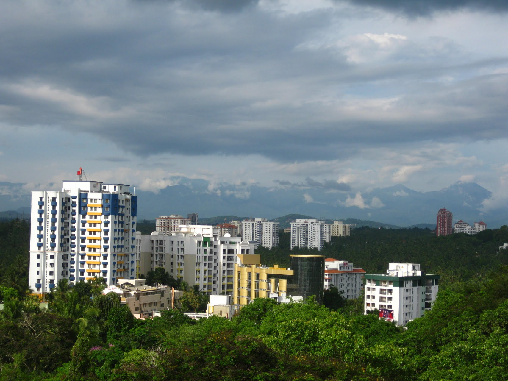 The green Skyline of Pattom, The northern shopping suburb of Trivandrum City, Kerala, India. The City is Known as the Evergreen City. The western ghats mountain range is seen in the background.